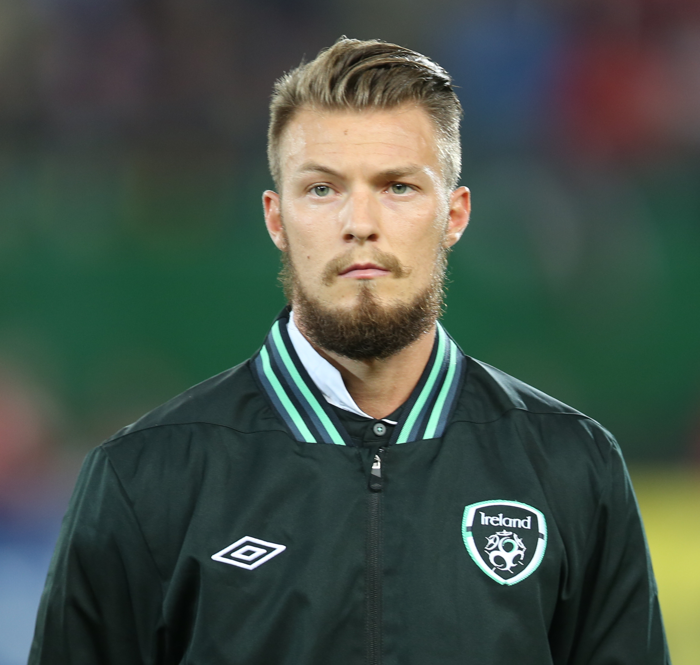 2014 FIFA World Cup qualification (UEFA), Group C: Republic of Ireland national football team at 10. September 2013 before the match against the Austria national football team (0:1) in the Ernst-Happel-Stadion in Vienna. Here:AnthonyPilkington , Irish winger. The making of this work was supported by Wikimedia Austria. For other files made with the support of Wikimedia Austria, please see the category Supported by Wikimedia Österreich.